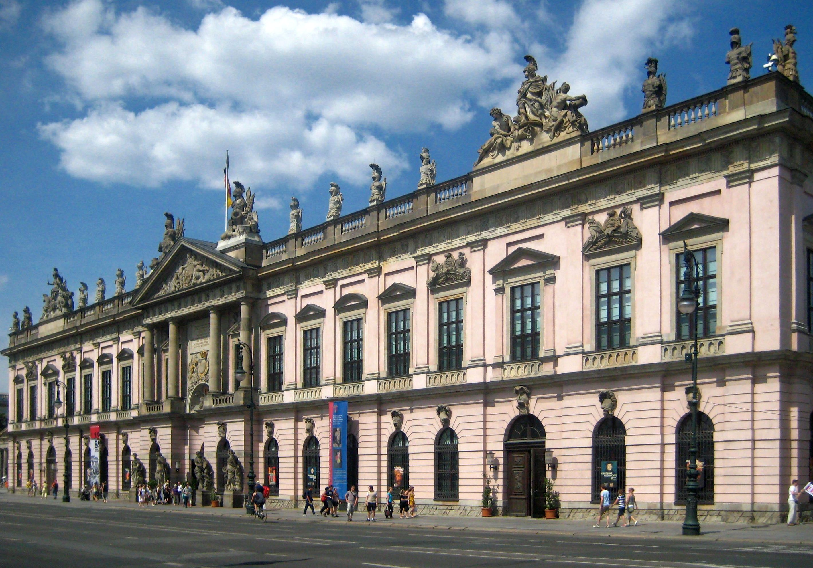 The facade of the Zeughaus (Old Arsenal), Unter den Linden, in Berlin-Mitte.